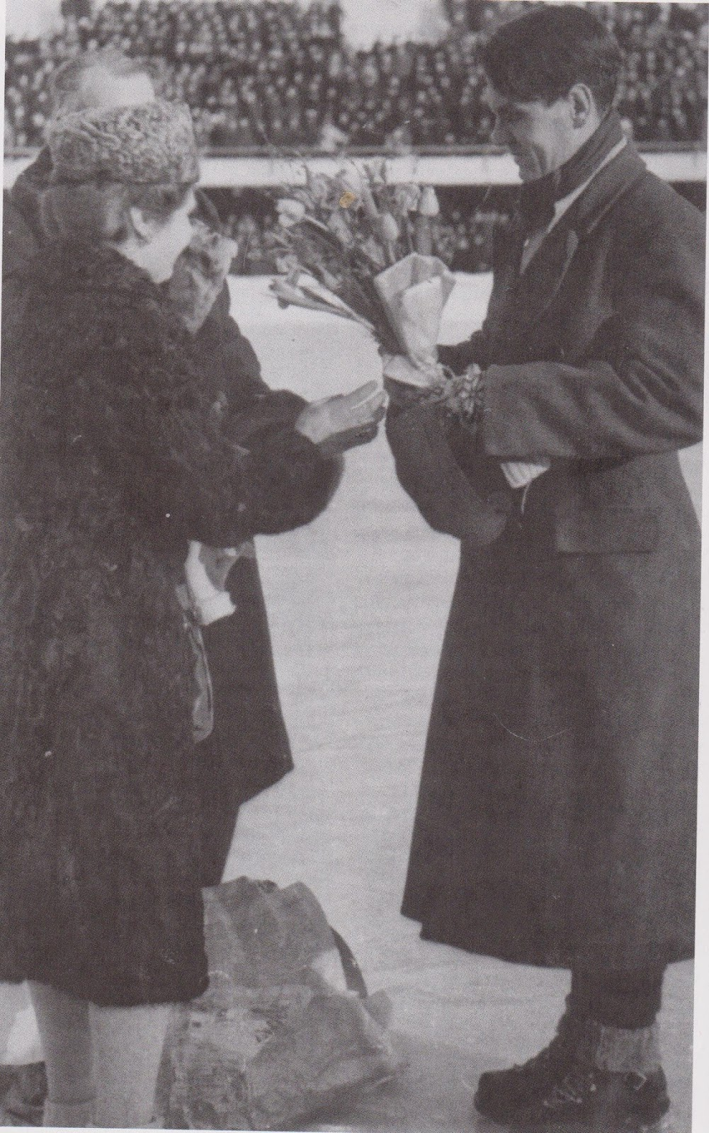 Lassi Parkkinen receives flowers from Birger Wallenius' widow on Helsinki olympic stadium on half time of bandy game Finland-Sweden - February 1950.